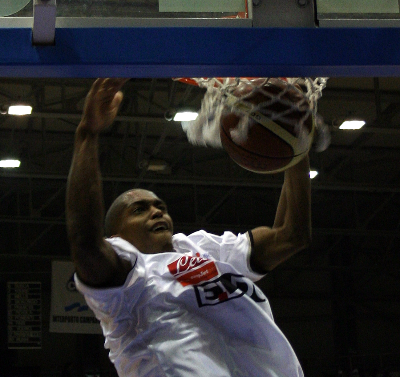 Basketball player Larry O'Bannon